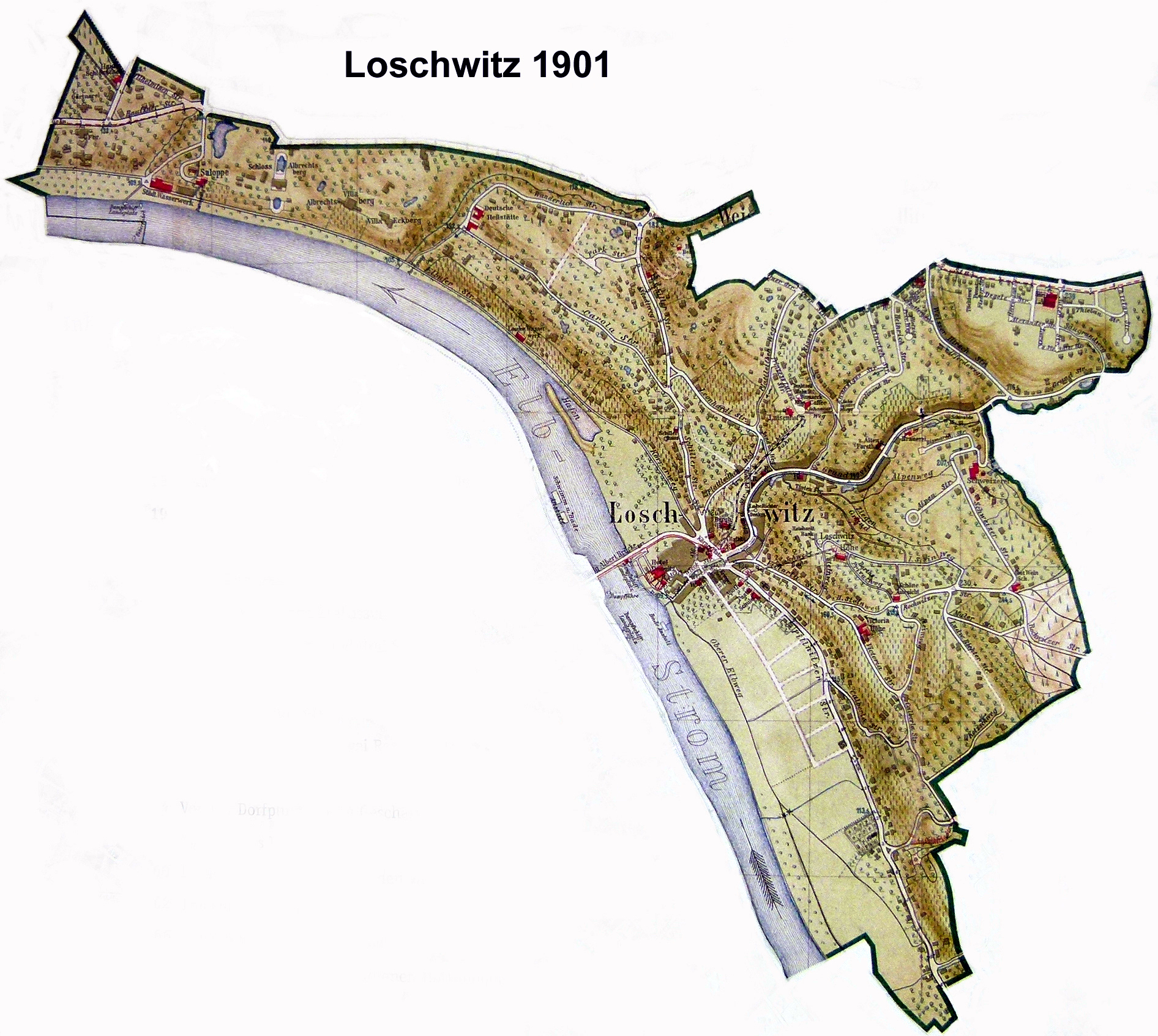 Historical map of Loschwitz 1901